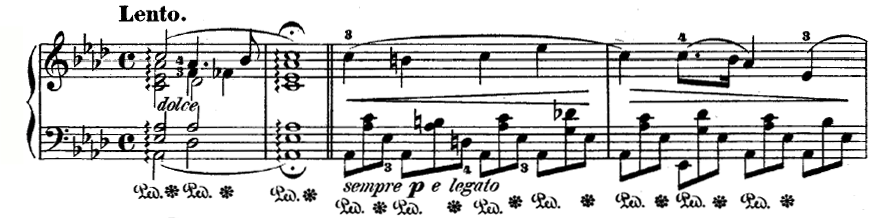 Opening bars of Nocturne Op 32, No 2